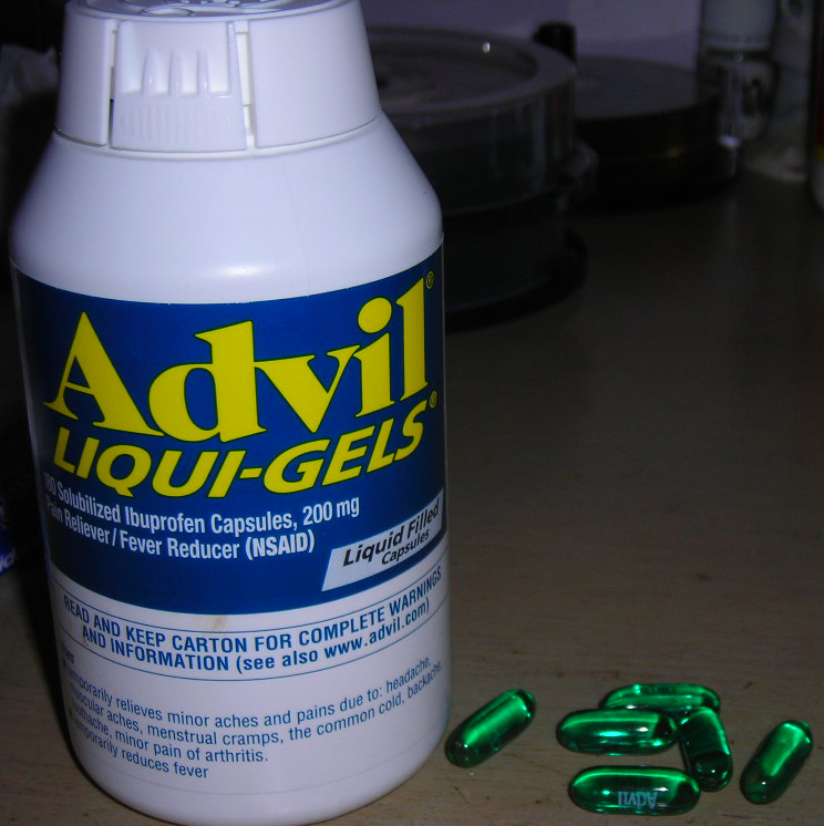 Advil Liquid Gel Bottle and pills